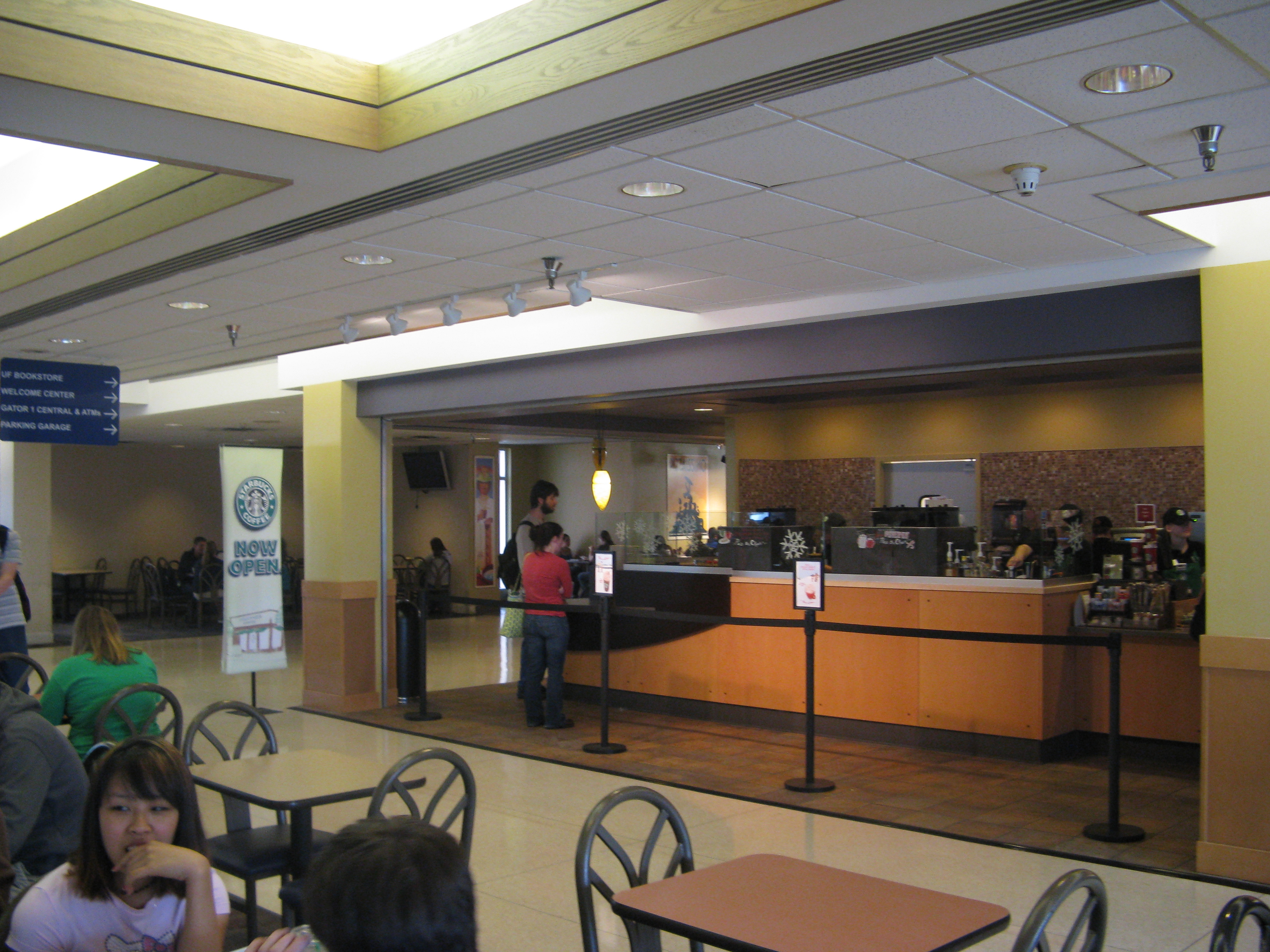 Starbucks Coffee at the University of Florida Reitz Union